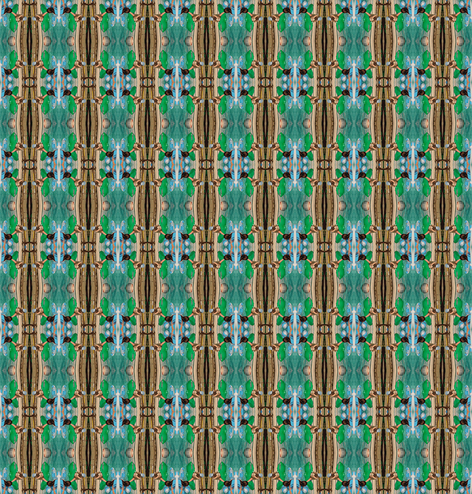 Photography